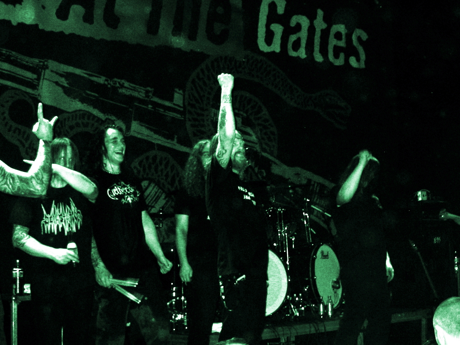 At the Gates live in Gotemborg in 2008